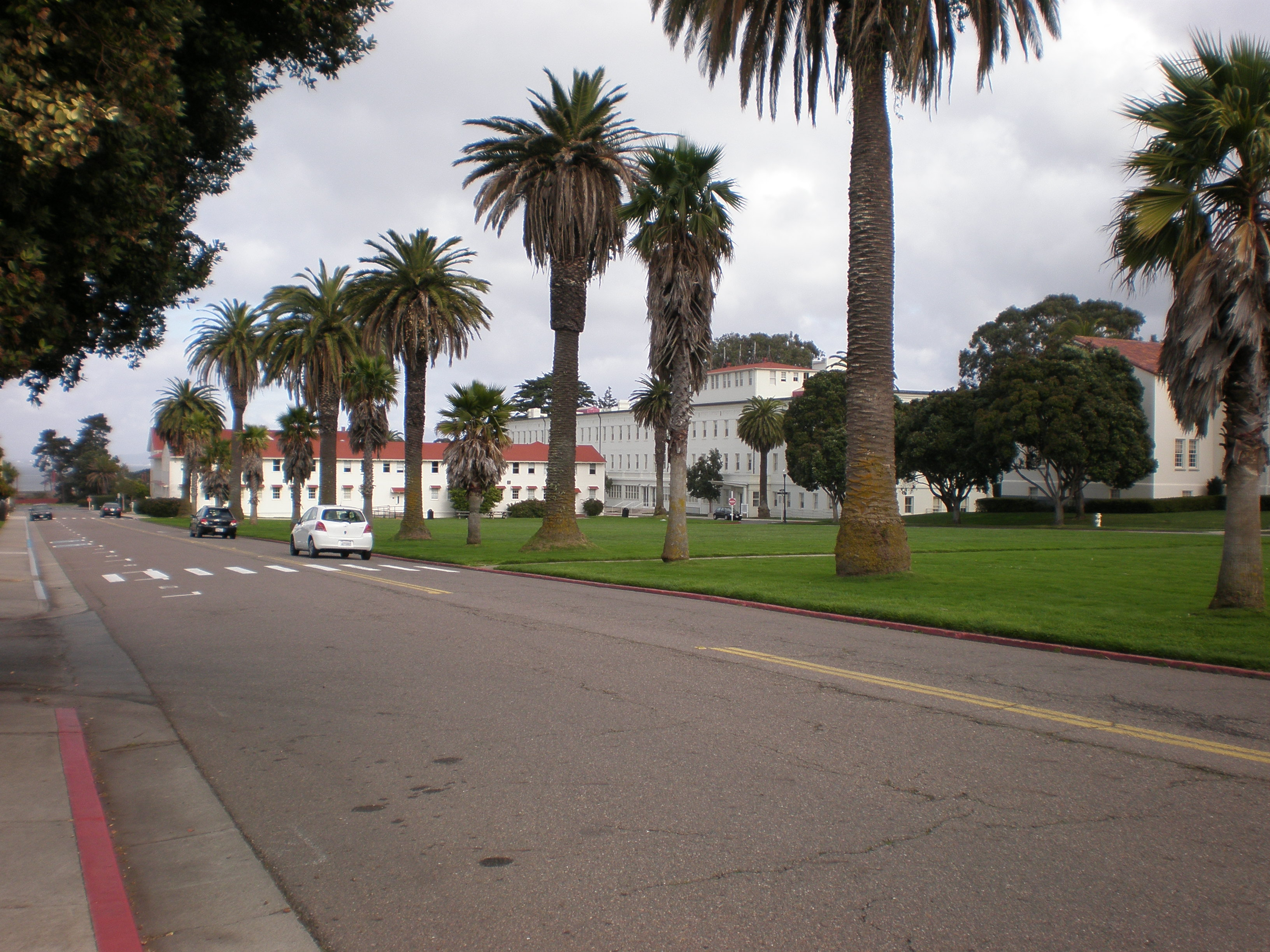 Anza Street on the Main Post area of the Presidio of San Francisco.